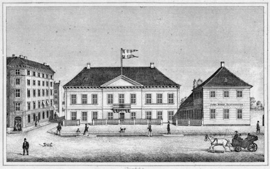 The Royal Copenhagen Shooting Society's building on Vesterbrogade (built 1782-87) in 1888. Today it houses the Museum of Copenhagen